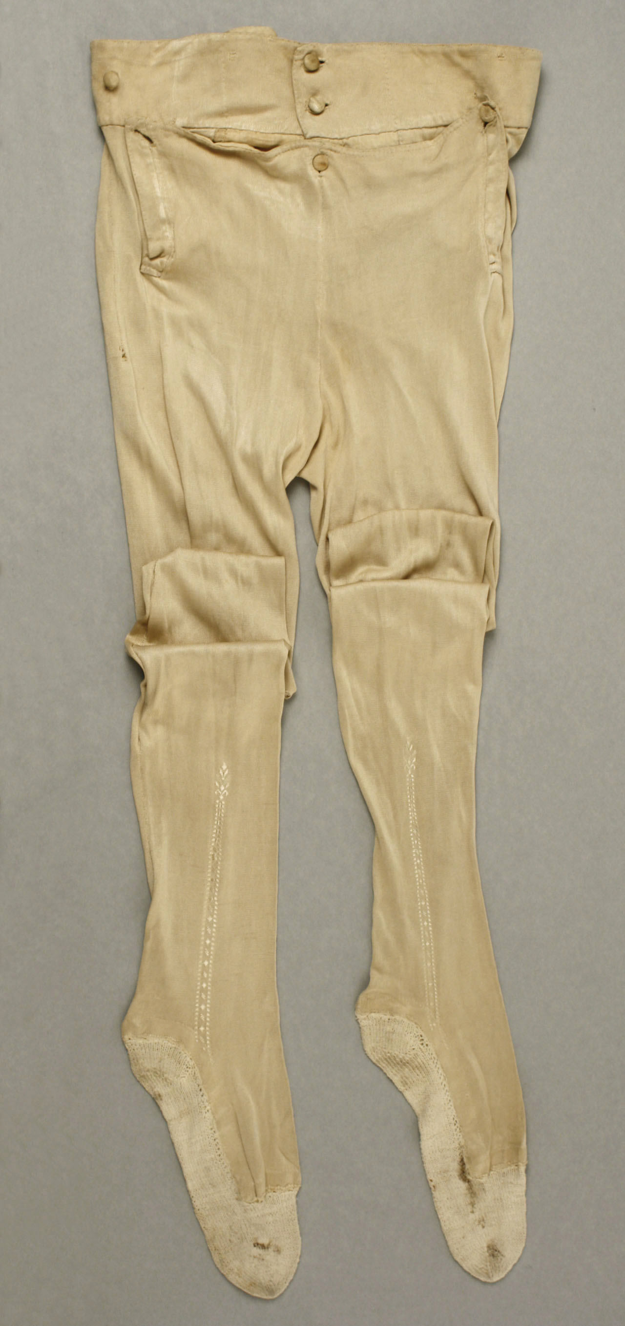 Italian; Tights